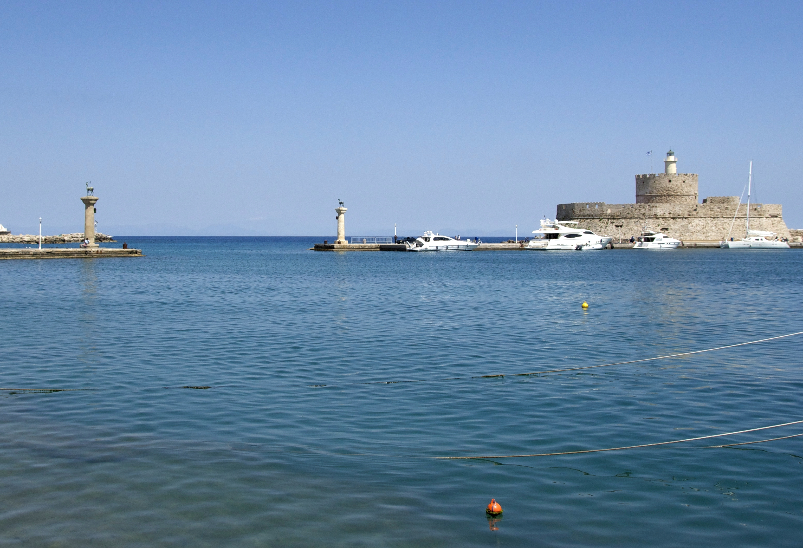 The entry of the old harbour of Rhodes (called Mandraki), from the embankment inside. Rhodes, Greece. According to the legend, here was located the Colossus of Rhodes, one of the Seven Wonders of the Ancient World. One can see the Saint-Nicolas fort and his lighthouse.